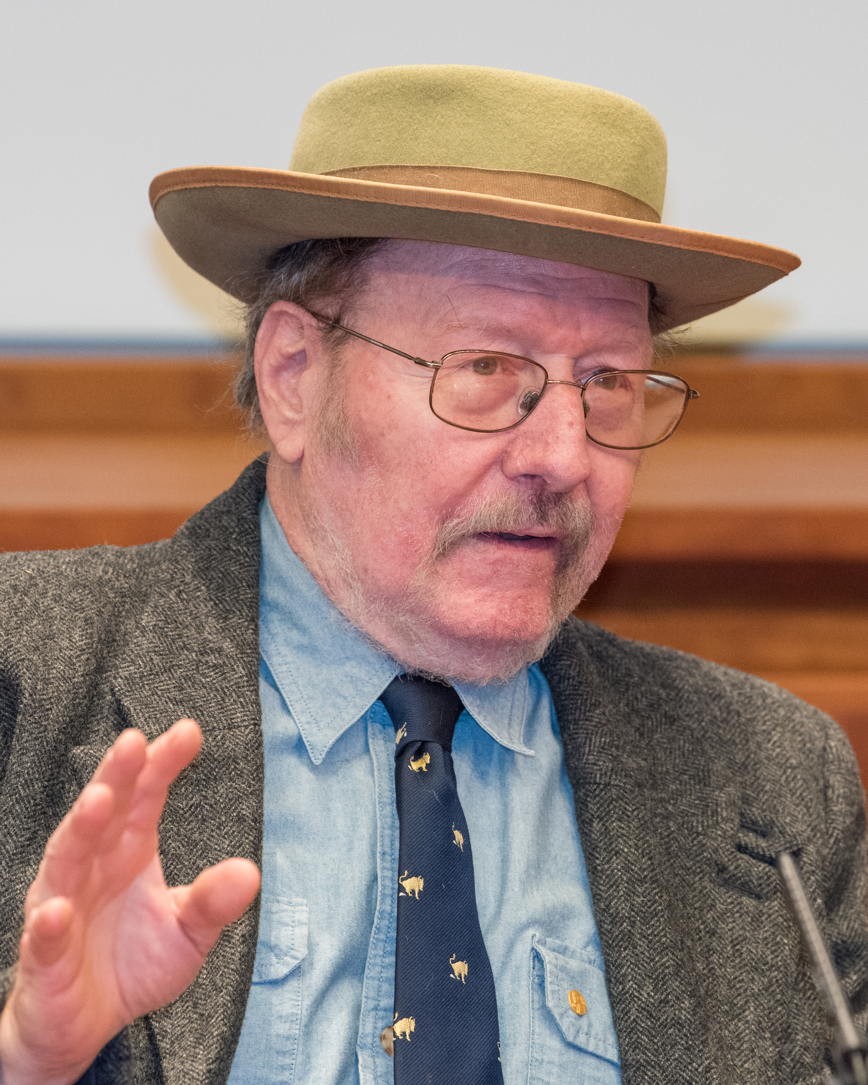 Nobel Prize Laureates in Medicine 2017 Jeffrey C. Hall